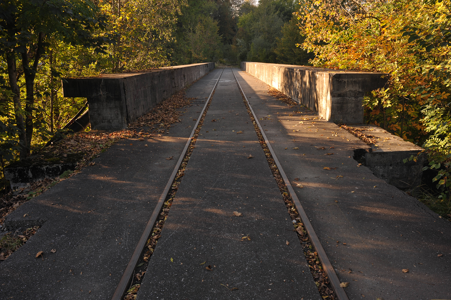 Bridge of the former Sensetalbahn line Laupen–Gümmenen over Sarine river near Laupen; Berne, Switzerland